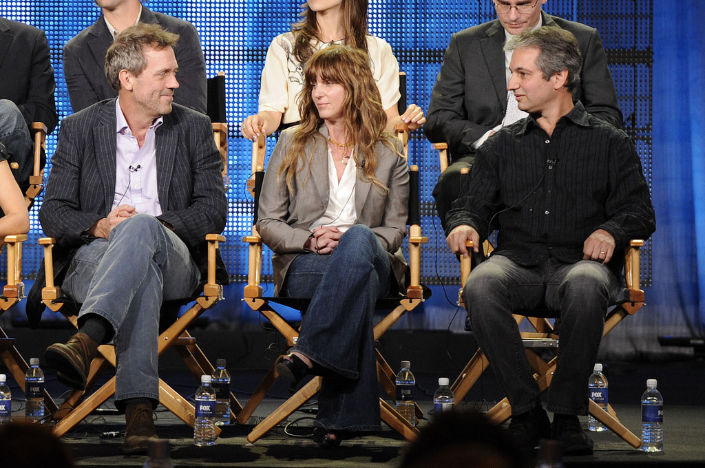 Hugh Laurie and executive producers Katie Jacobs and David Shore during the HOUSE session of the 2009 FOX WINTER TCA Tuesday, Jan. 13 at the Universal Hilton in Universal City, CA.